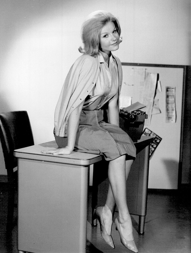 Photo of Sharon Farrell as Polly Holloran from the television series Saints and Sinners.